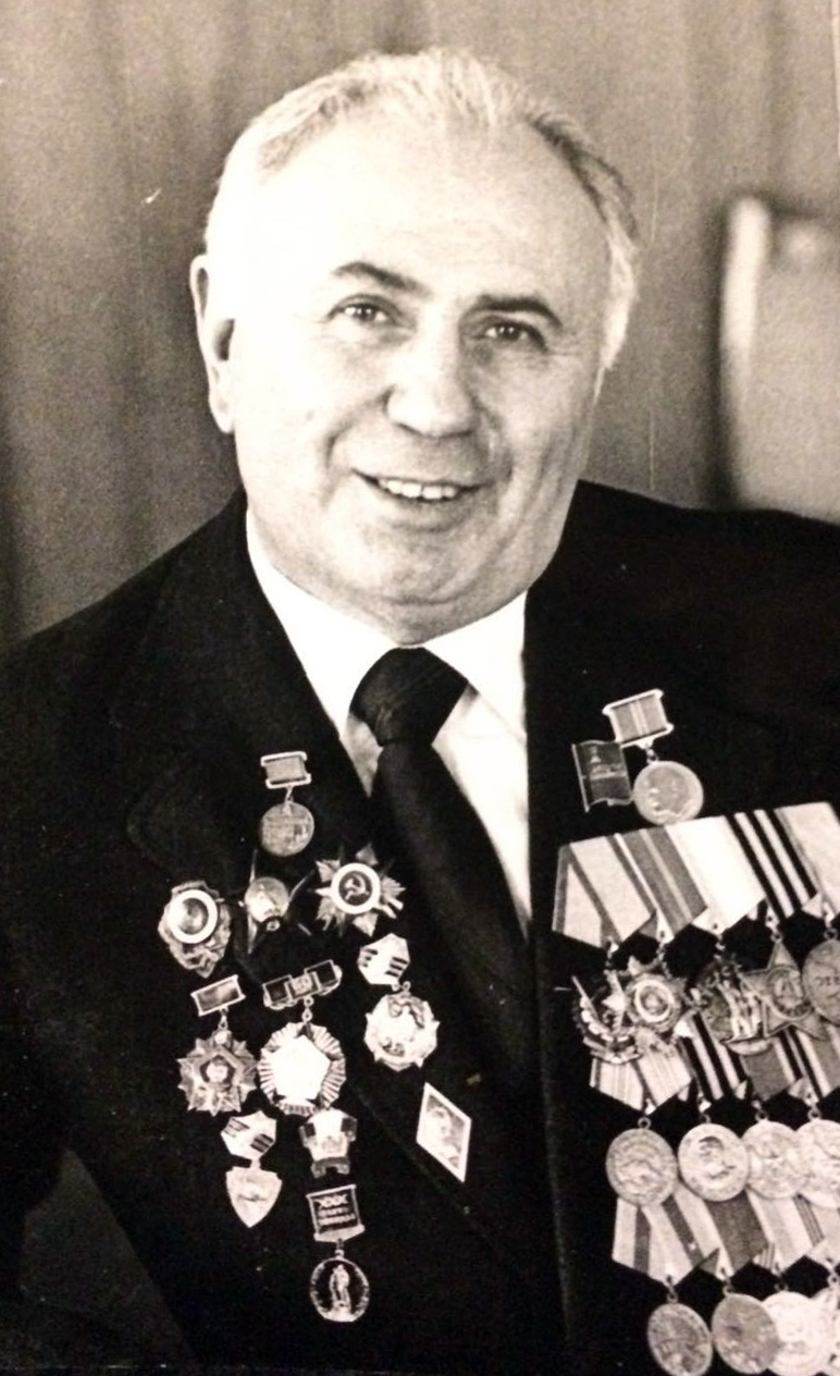 Амбарцумян Мхитар Адамович